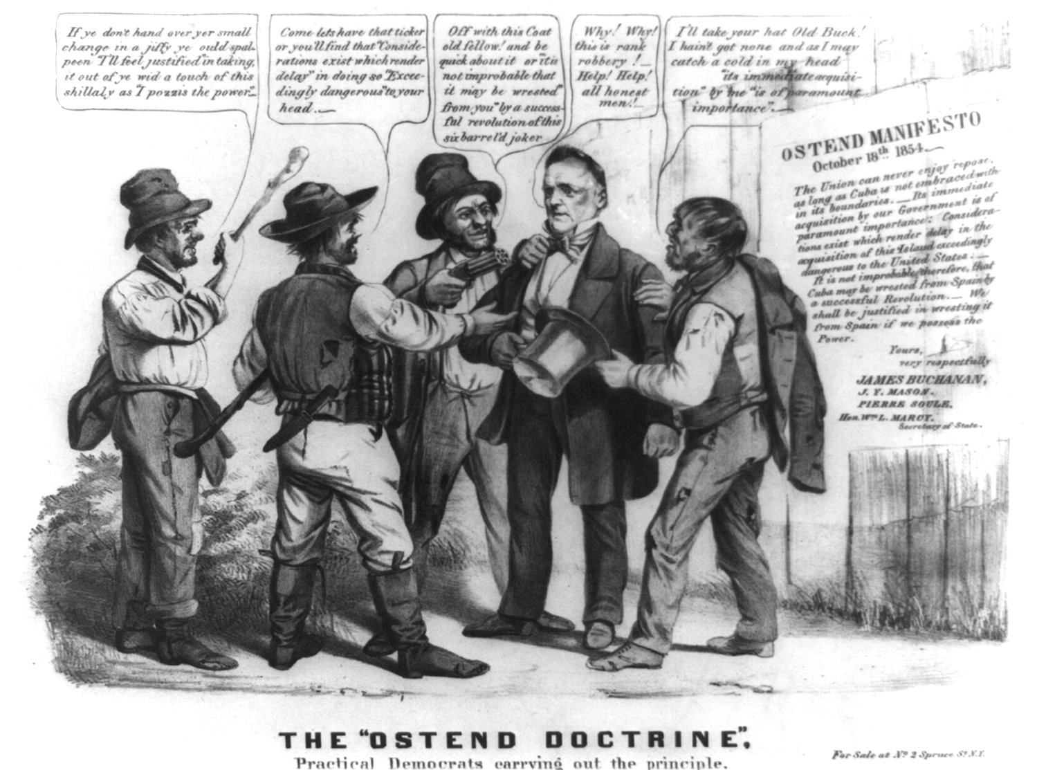 1856 U.S. political cartoon. A gang of toughs taking James Buchanan's possessions in phrases reflecting the Ostend Manifesto's language advocating the U.S. take possession of Cuba. From Library of Congress: The Ostend Manifesto, advocated by American minister to England James Buchanan, minister to Spain Pierre Soule, and John Y. Mason, minister to France, urged the purchase or (if necessary) seizure of Cuba from Spain. The manifesto was issued in October 1854. Here Buchanan is singled out for attack for his role in the controversy. He is surrounded by four unkempt toughs seeking to rob him of his coat, hat, watch, and money. Their demands include quotations from the manifesto which is posted on the fence at right. First hoodlum (an Irishman, at far left) raising a club: "If ye don't hand over yer small change in a jiffy ye ould spal-peen "I'll feel justified" in taking it out of ye wid a touch of this shillaly as "I pozziz the power." Second hoodlum, armed with a club and knife: "Come lets have that ticker or you'll find that "Considerations exist which render delay" in doing so "Exceedingly dangerous" to your head." Third hoodlum, holding a large revolver: "Off with this Coat old fellow! and be quick about it or "it is not improbable that it may be wrested" from you "by a successful revolution" of this six barrel'd joker." Fourth hoodlum: "I'll take your hat Old Buck! I hain't got none as I may catch a cold in my head "its immediate acquisition" by me "is of paramount importance." Buchanan protests: "Why! Why! this is rank robbery! Help! Help! all honest men!"